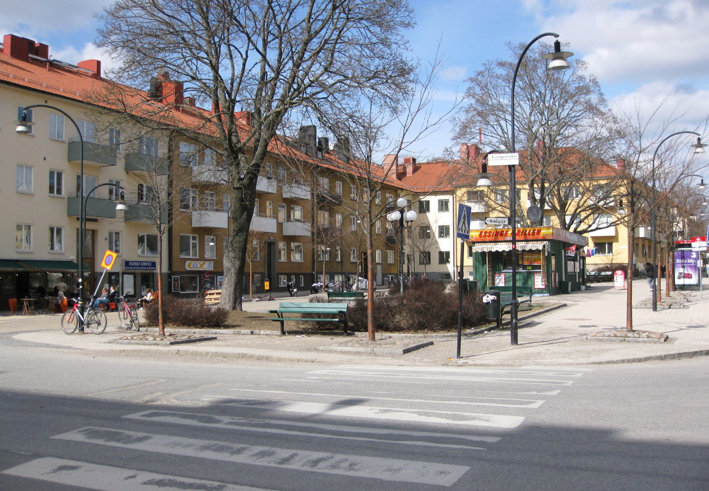 Essingetorget, Stora Essingen, Stockholm